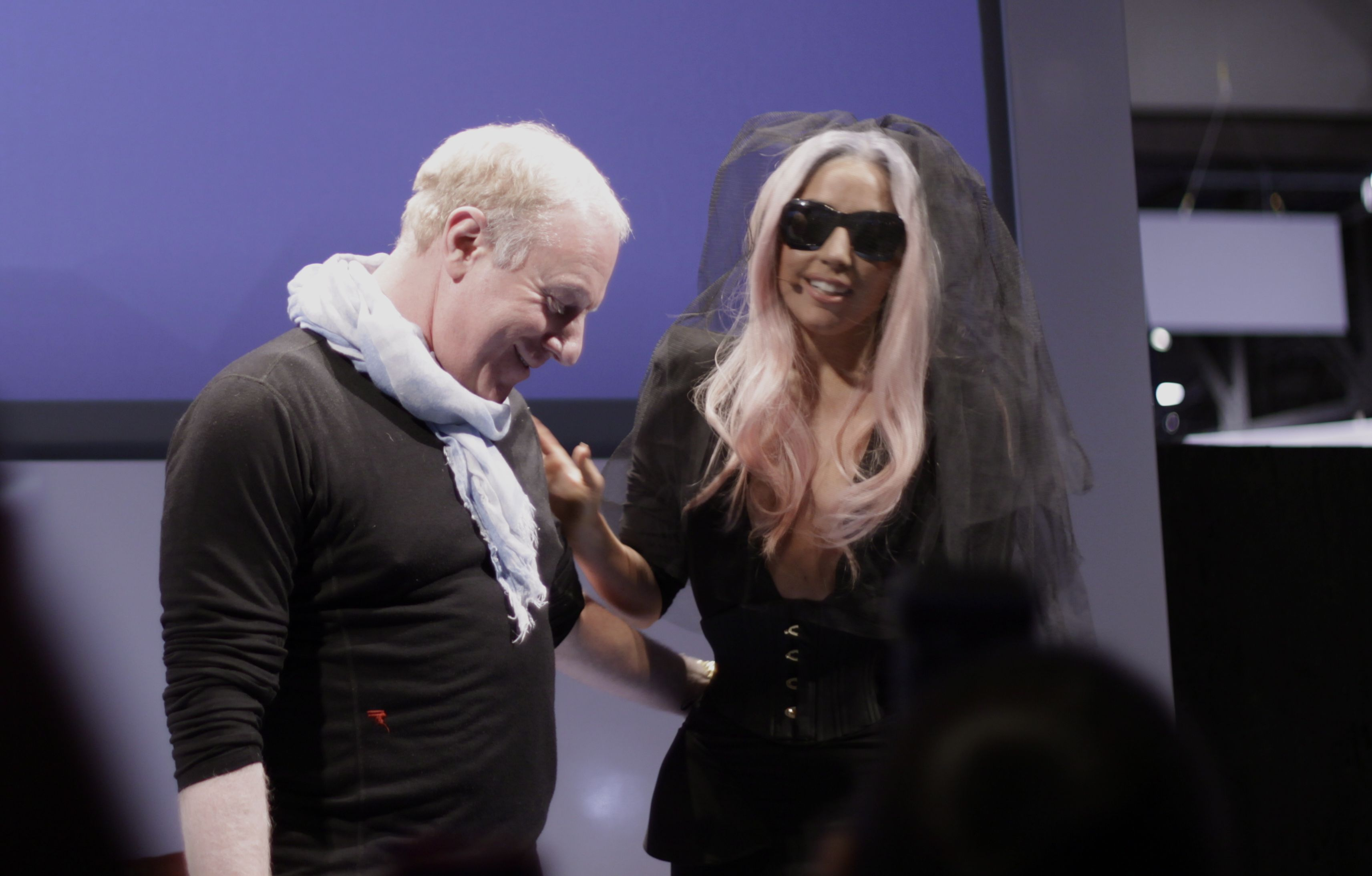 Lady Gaga at the the Polaroid CES Grey Label reveal.